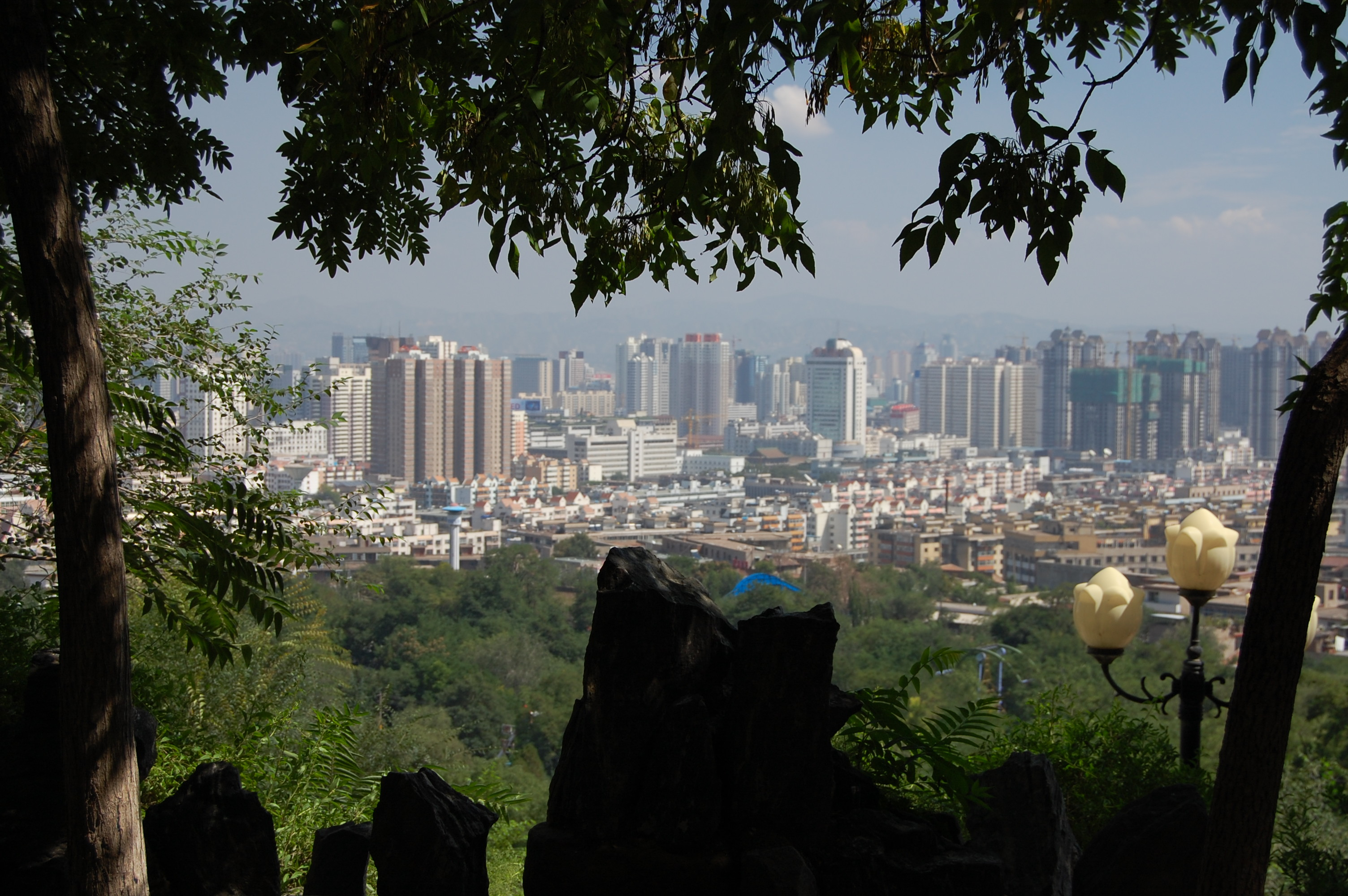 View to Lanzhou